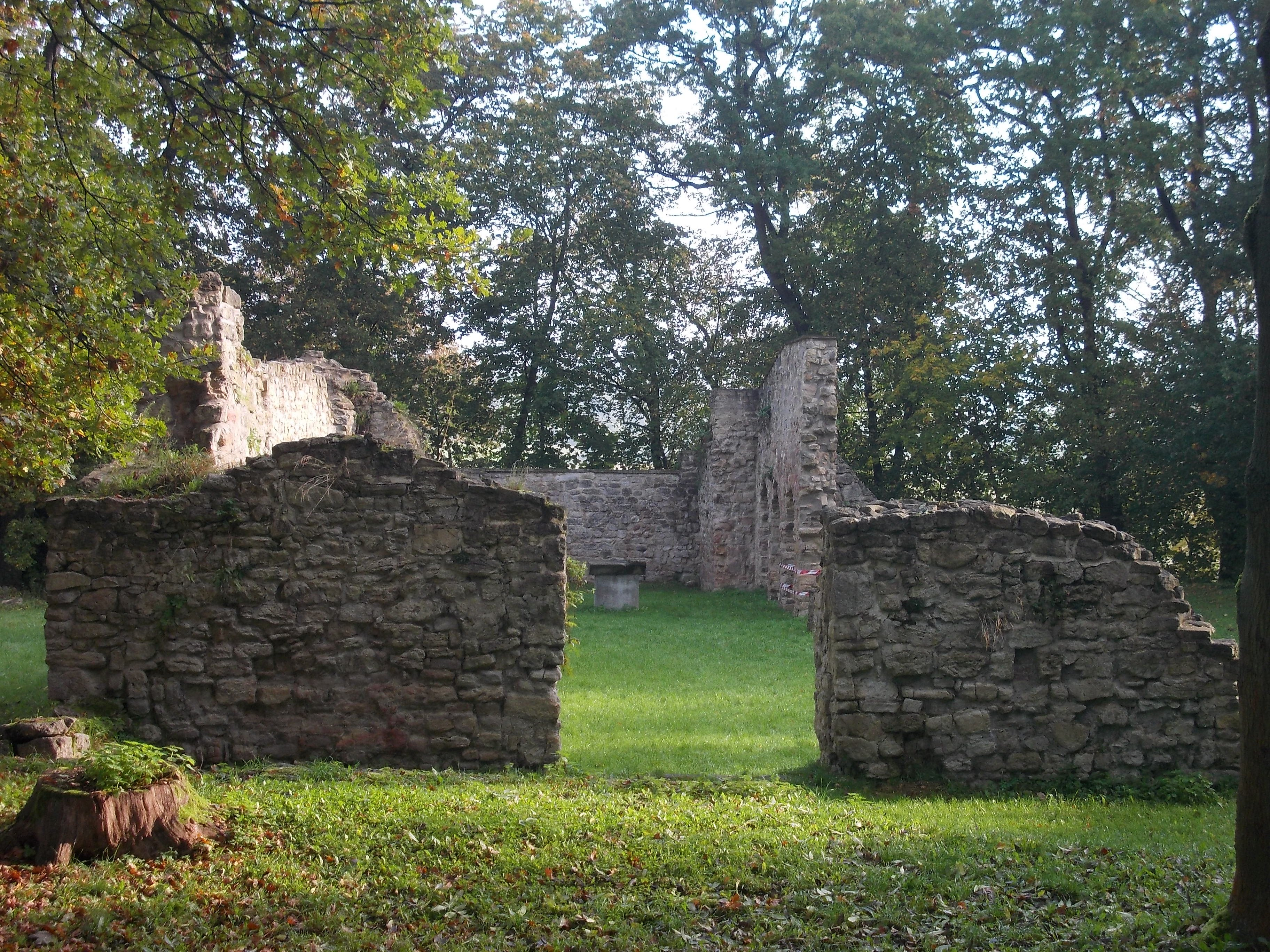 The ruins of St. Cyriacus' Church near Camburg (Dornburg-Camburg, district: Saale-Holzlandkreis, Thuringia)